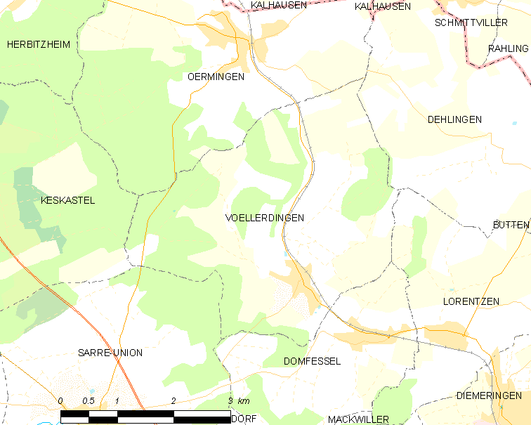 Map of French municipality